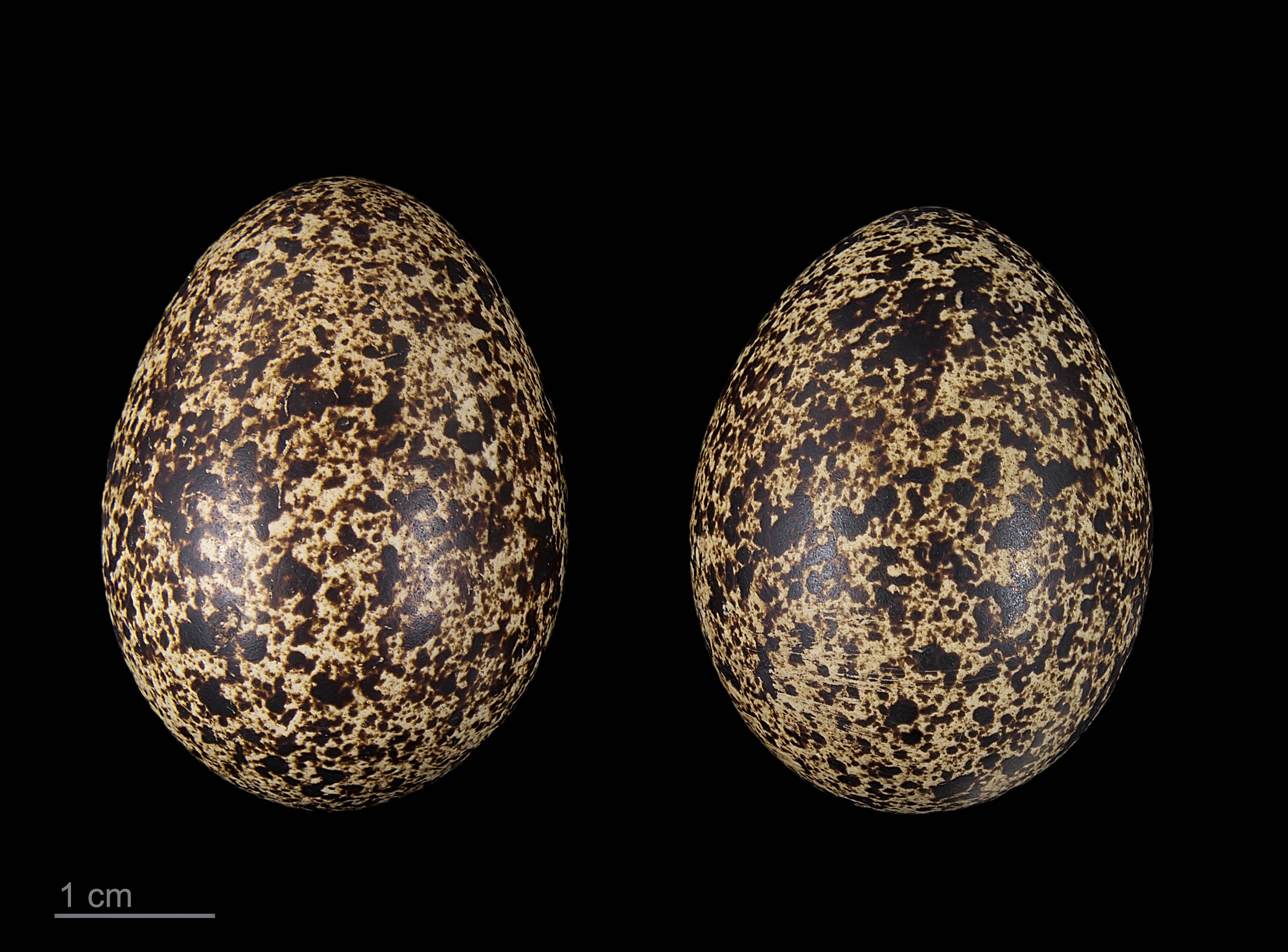 Egg of Lagopus muta muta Collection of Jacques Perrin de Brichambaut.